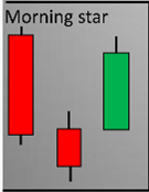 תבנית כוכב הבוקר